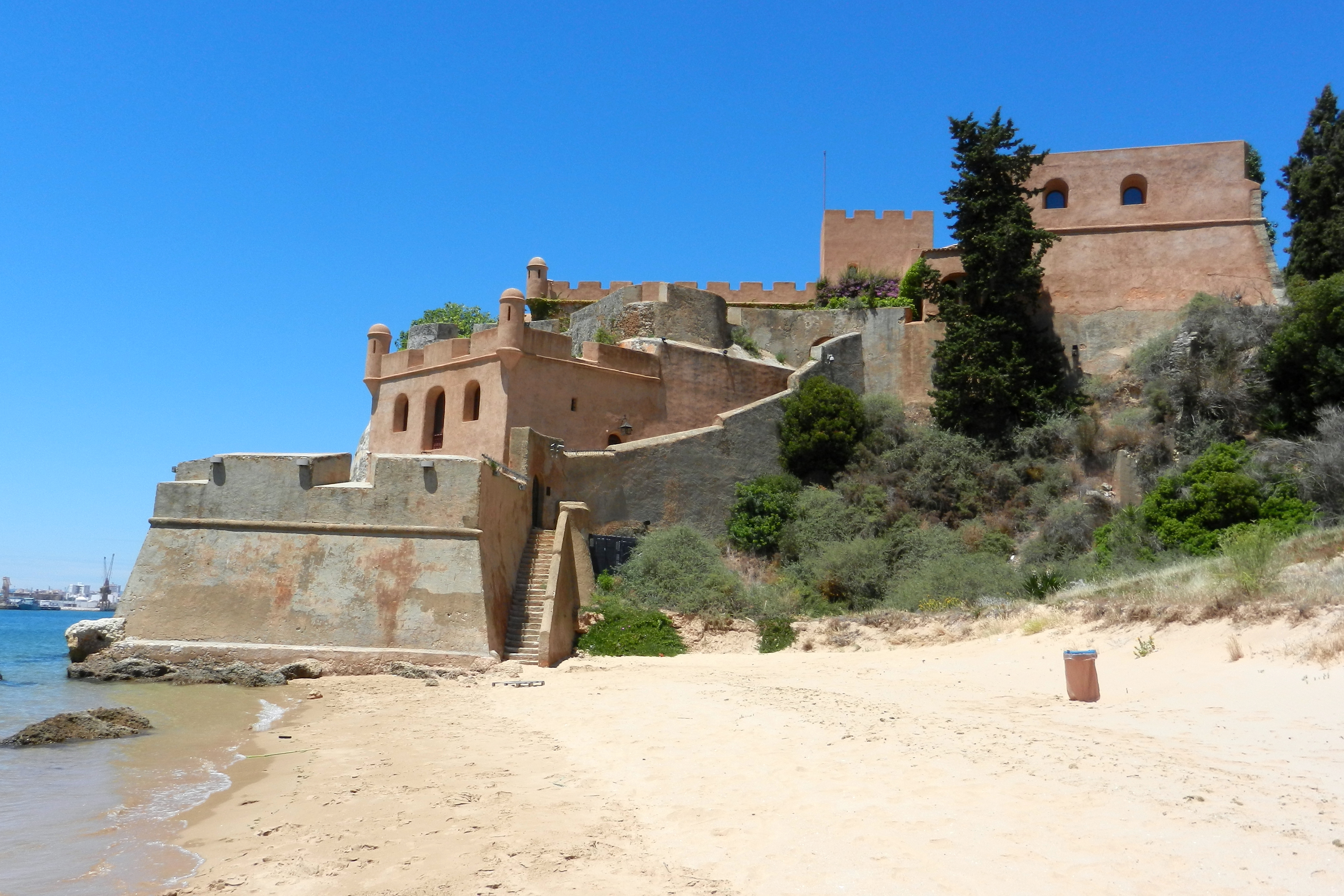 The Fort of São João do Arade, sometimes referred to as the Castle of Arade, is a medieval fortification situated in Ferragudo, Algarve Portugal. Constructed in the 16th–17th century to protect the coast from pirates and privateers